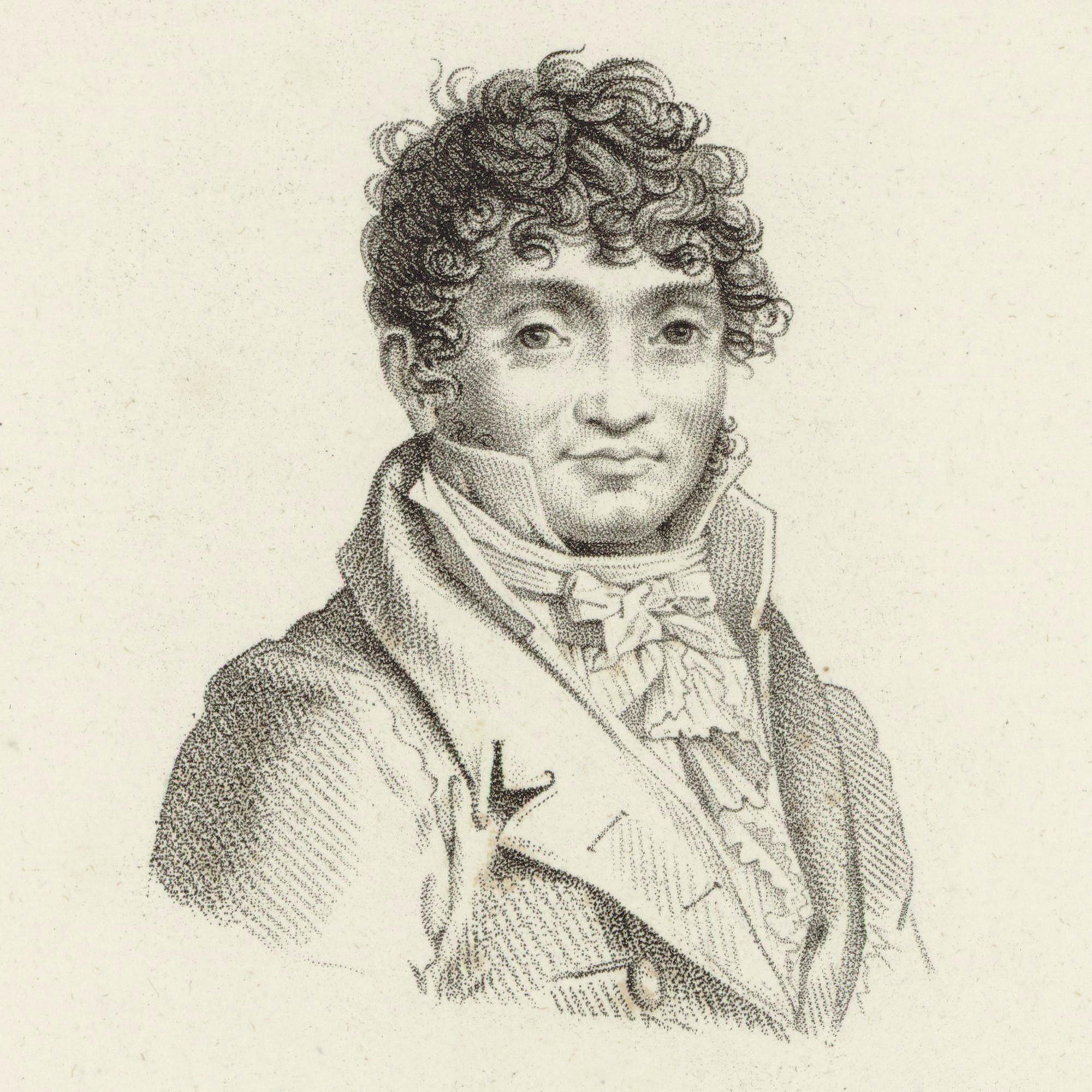 French violinist and composer Jean-Baptiste Cartier (1765–1841)